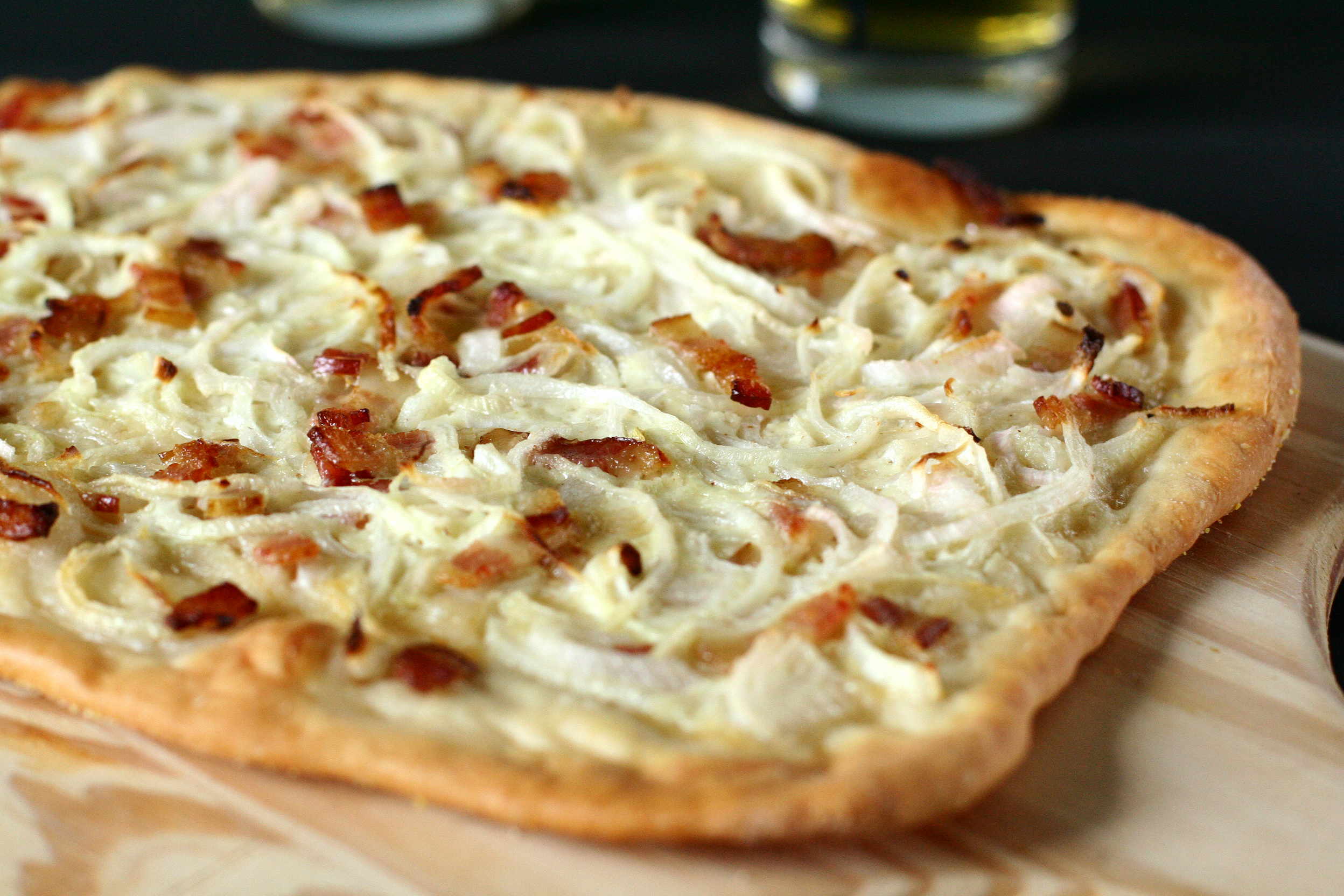 A Flammekueche, a speciality from Alsace